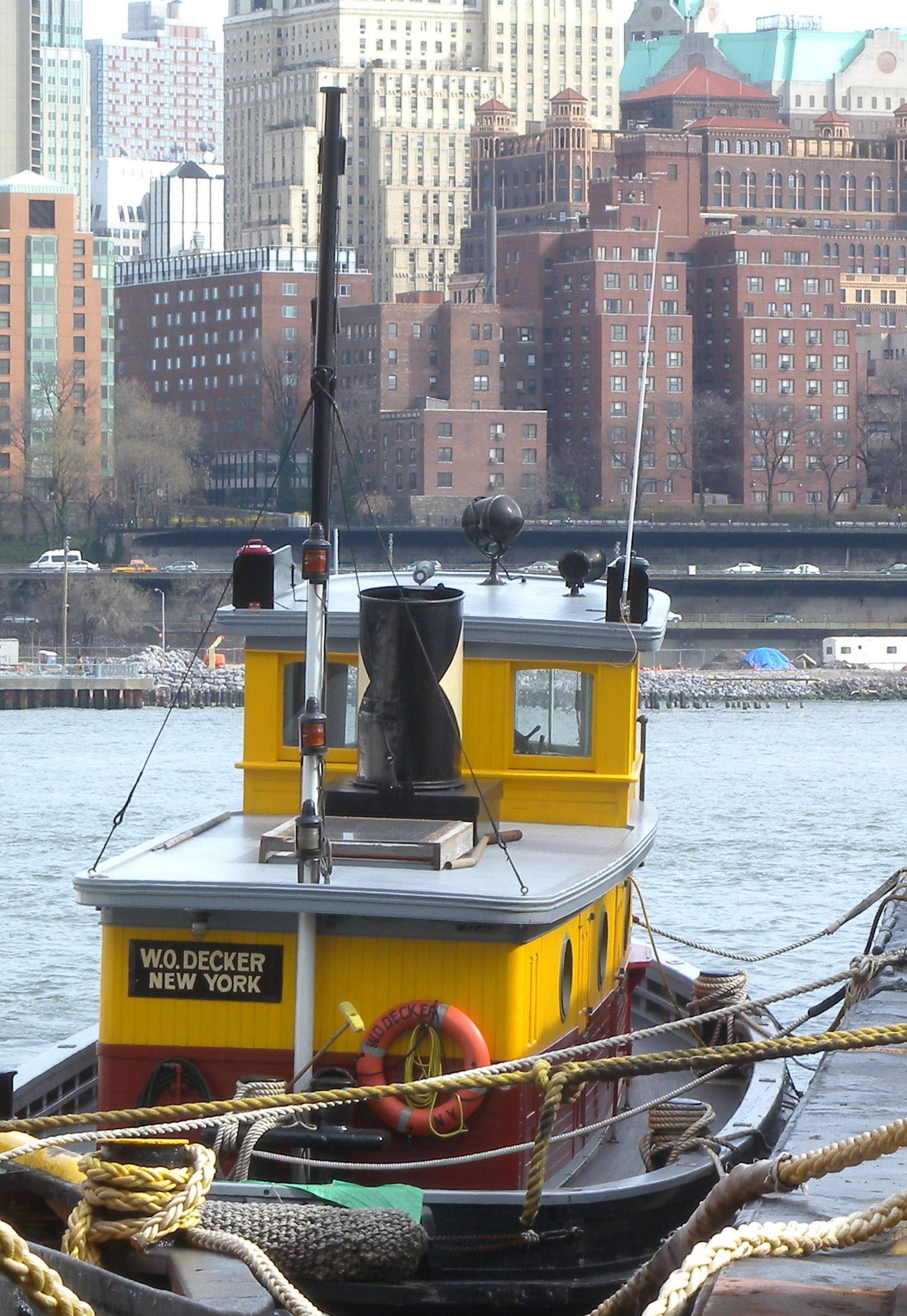 Looking southeast at WO Decker, lying btween Ambrose and a barge, on a sunny midday.